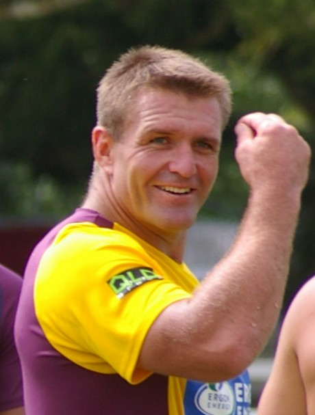 Quick snap of the Brisbane Broncos rugby league team training on 18 April 2006. Shane webcke.